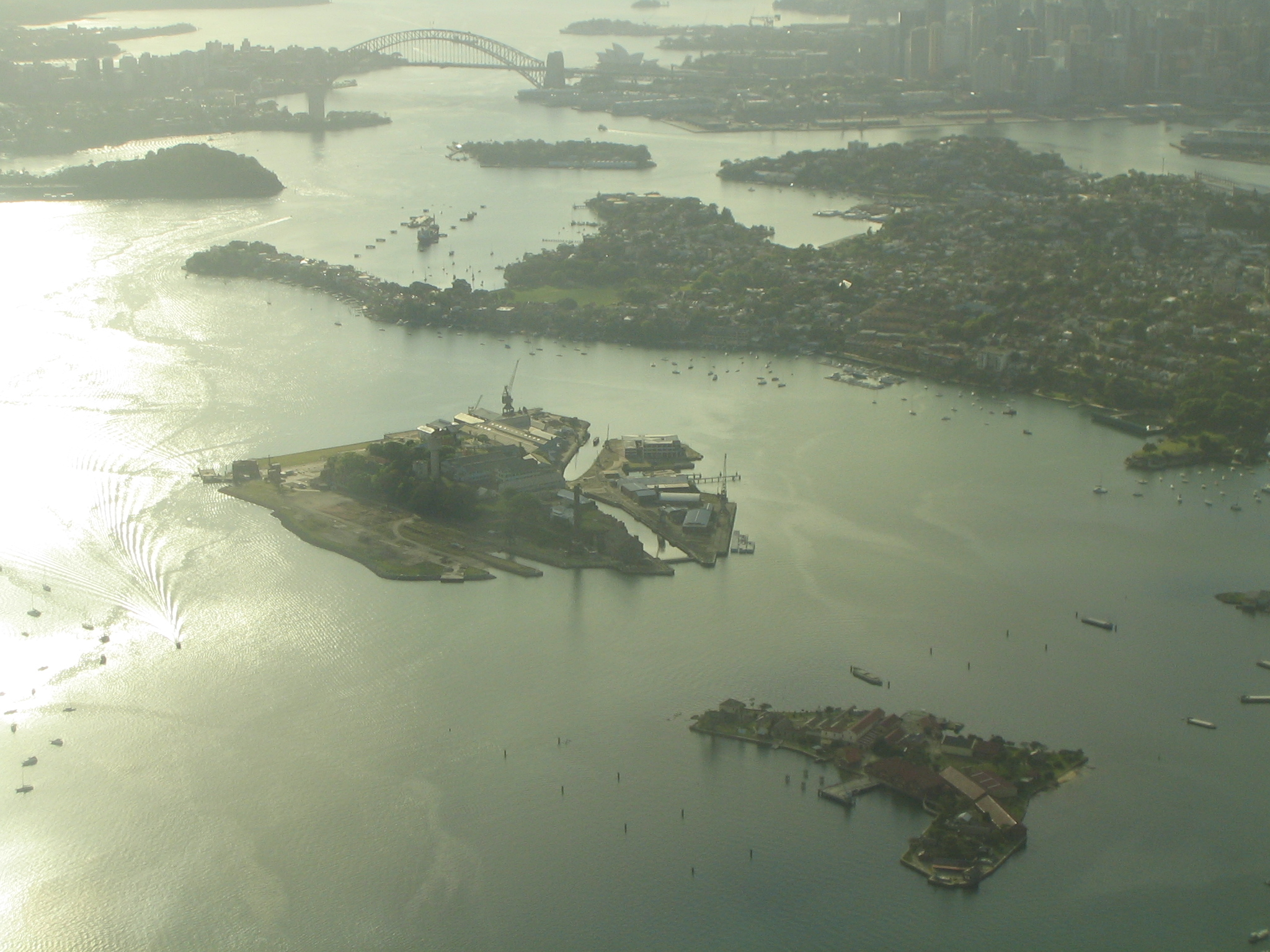 Aerial view of Spectacle Island (front) and Cockatoo Island (rear) — in Sydney Harbour. Located Sydney, New South Wales, Australia.